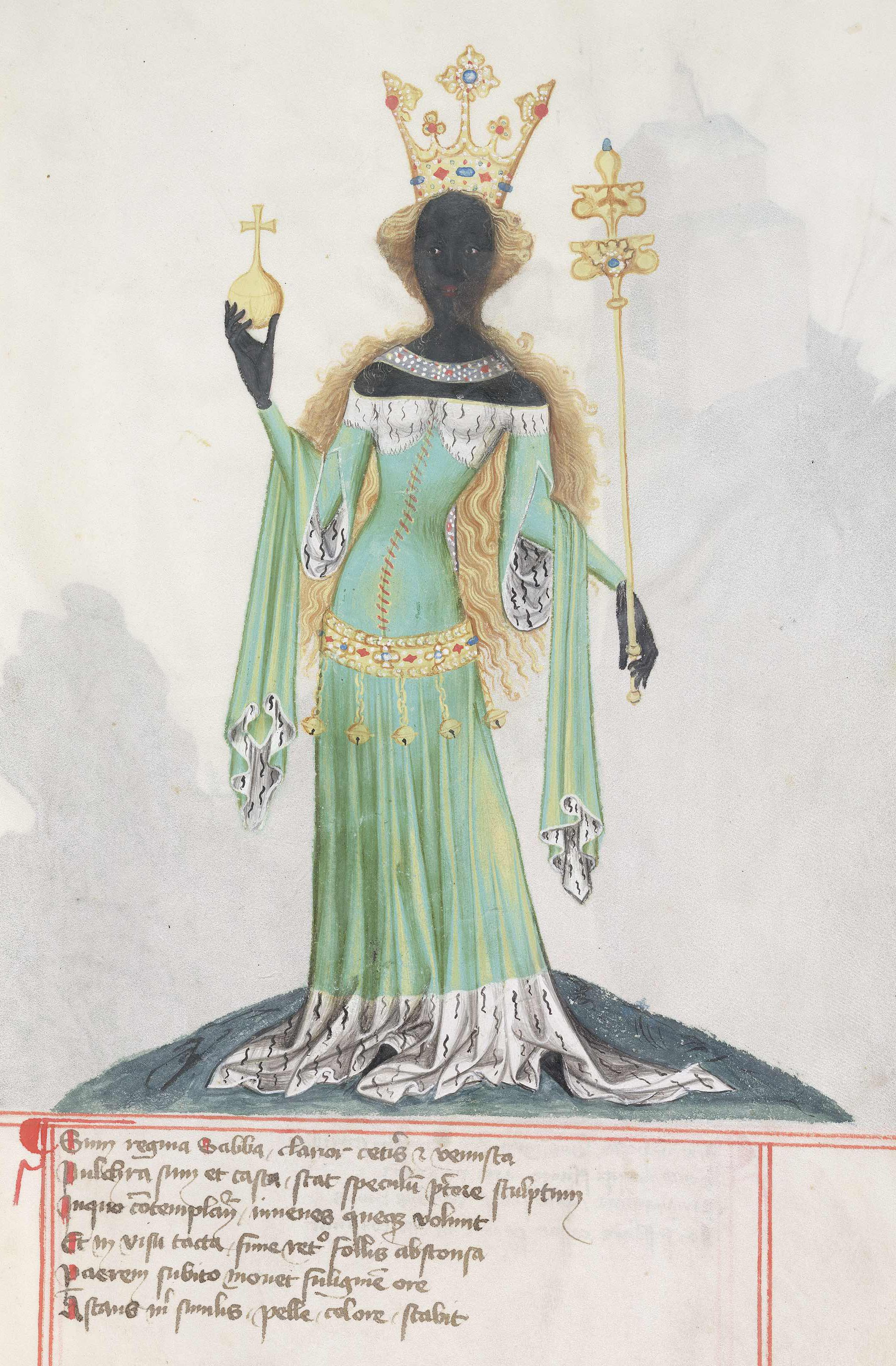 The Queen of Sheba. From the manuscript "Bellifortis" by Conrad Kyeser, ca. 1402-05. Staats- und Universitätsbibliothek Göttingen, 2 Cod. Ms. Philos. 63, Cim., fol. 122r. Sum regina Sabba clarior ceteris et venusta Pulchra sum et casta stat speculum pectore sculptum In quo contemplantur juvenes quecumque volunt Et in visu tacta fune retro follis absconsa Per aerem subito movet fuliginem ore Astans nisi similis pelle colore stabit I am the Queen of Sheba, more famous than others, and attractive: I am beautiful and chaste. There is a mirror in my chest, In which young men may behold whatever they wish. While one of them views it, he pulls a rope, the bellows are compressed, And darkness suddenly bursts forth from my mouth into the air: Then he stands before me with a similar skin, similar in color. Source: Conrad Kyeser, Bellifortis (originally 1402-1405 but with later revisions), Niedersächsische Staats- und Universitätsbibliothek Göttingen, 2 Cod. Ms. Philos. 63, Cim., fol. 122r., trans. by Astrid Khoo.